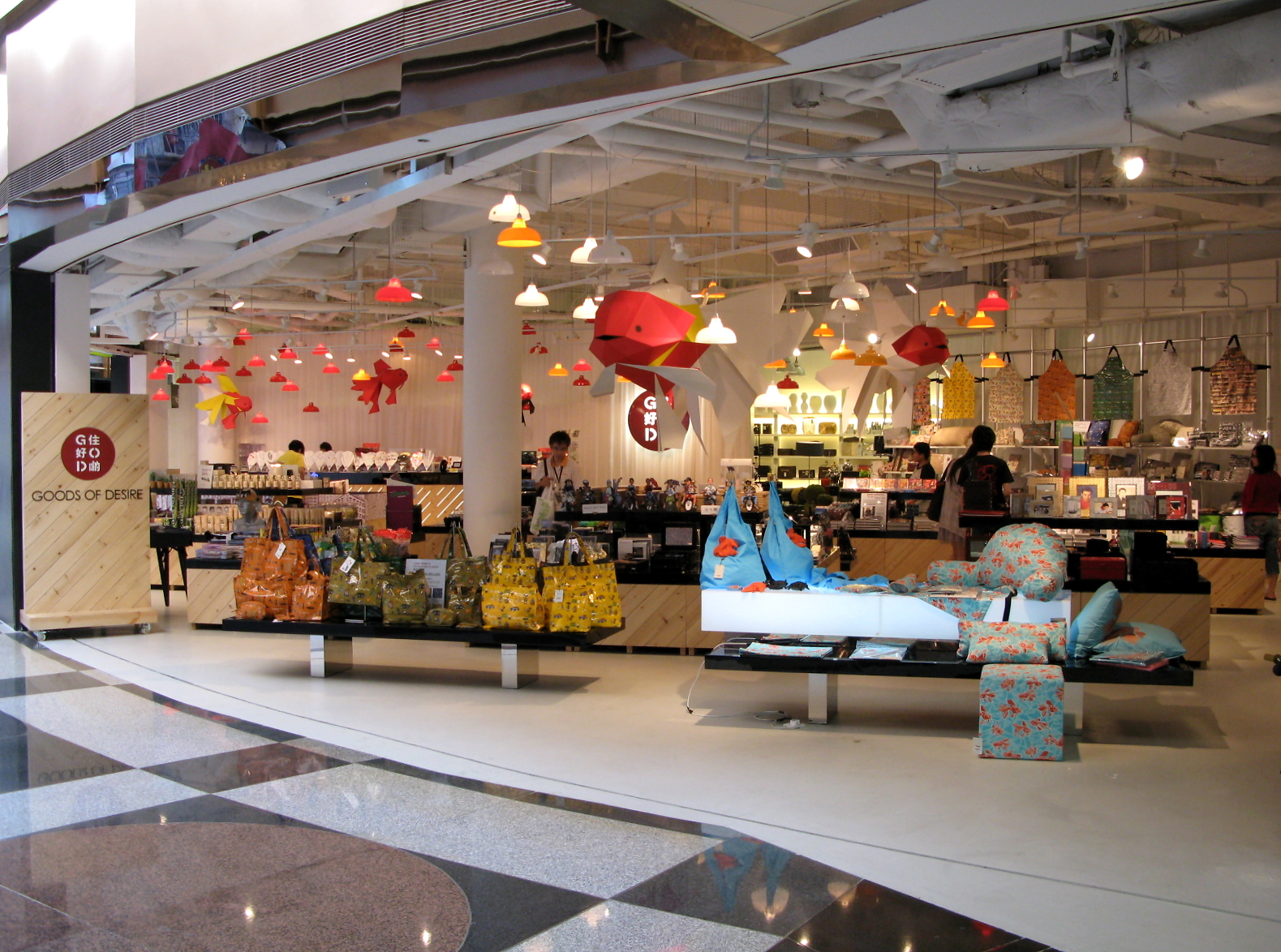 G.O.D. The Peak Gallera Store